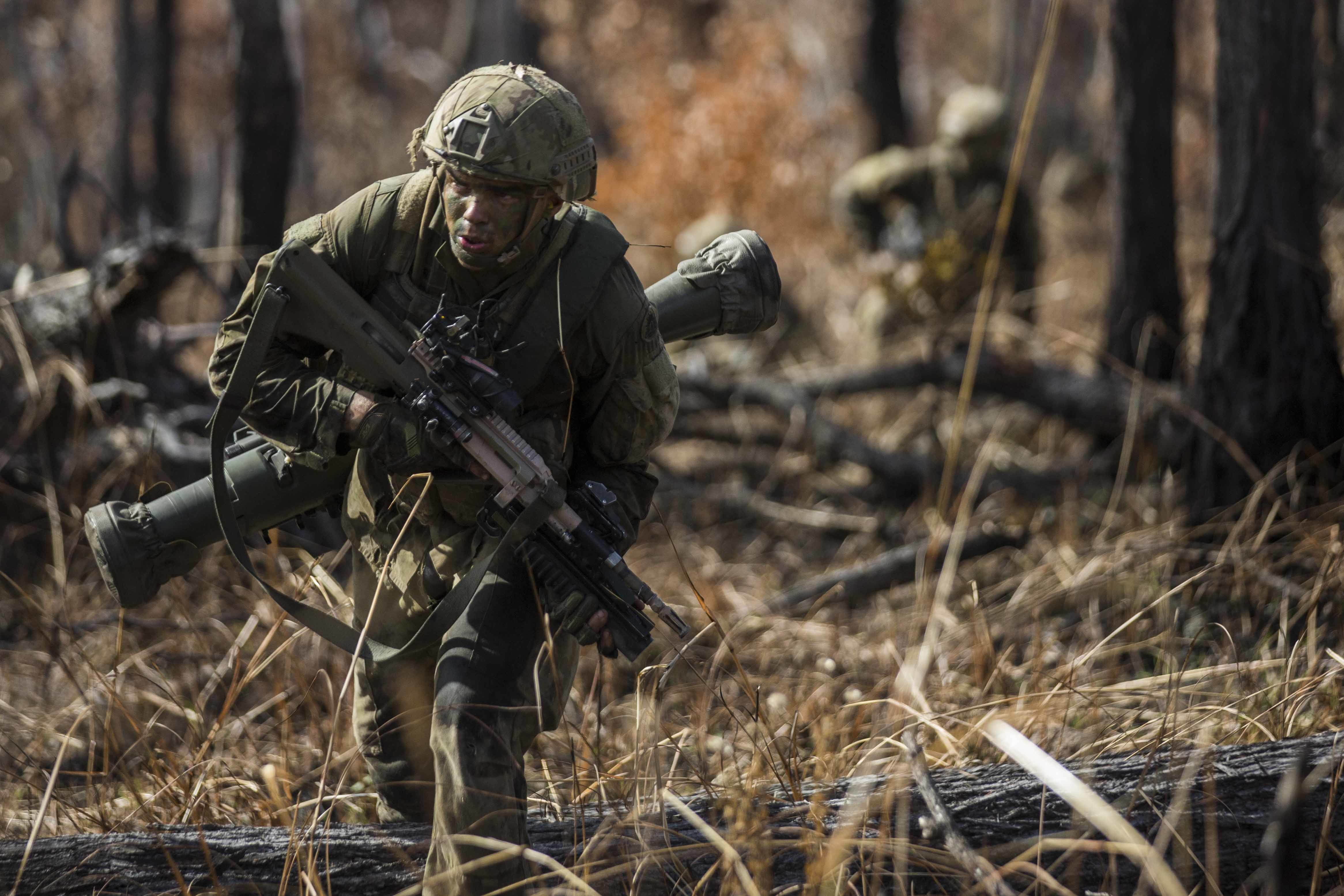 Members of the Australian Army with Battle Group Waratah, 8th Brigade, perform synchronized combat arms training at Shoalwater Bay, Queensland, Australia, May 23, 2016. The combat arms training was part of Exercise Southern Jackaroo, a combined training opportunity during Marine Rotational Force – Darwin (MRF-D). MRF-D is a six-month deployment of Marines into Darwin, Australia, where they will conduct exercises and train with the Australian Defence Forces, strengthening the U.S.-Australia alliance. (U. S. Marine Corps Photo by MCIPAC Combat Camera Lance Cpl. Osvaldo L. Ortega III/Released)